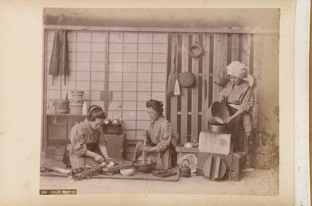 Three women preparing food.